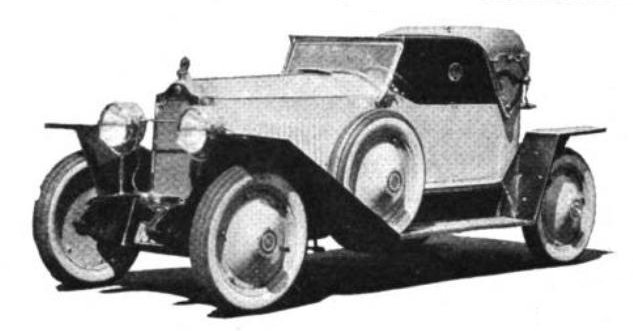 Photo is of a 1923 model Dagmar automobile from page 909 of the cited journal From Google Books archive: Title Illustrated world, Volume 38 Publisher R.T. Miller, 1922 Original from the University of Michigan Digitized Dec 12, 2008